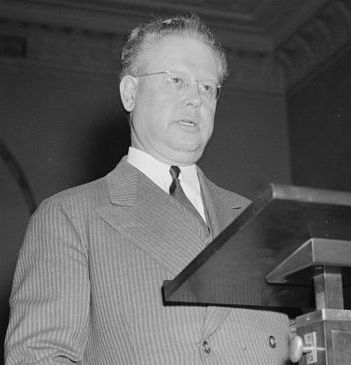 This is an image of Colorado Governor Ralph Lawrence Carr (1887-1950) cropped from a larger Harris and Ewing photo from the Prints and Photographs Collection of the United States Library of Congress.